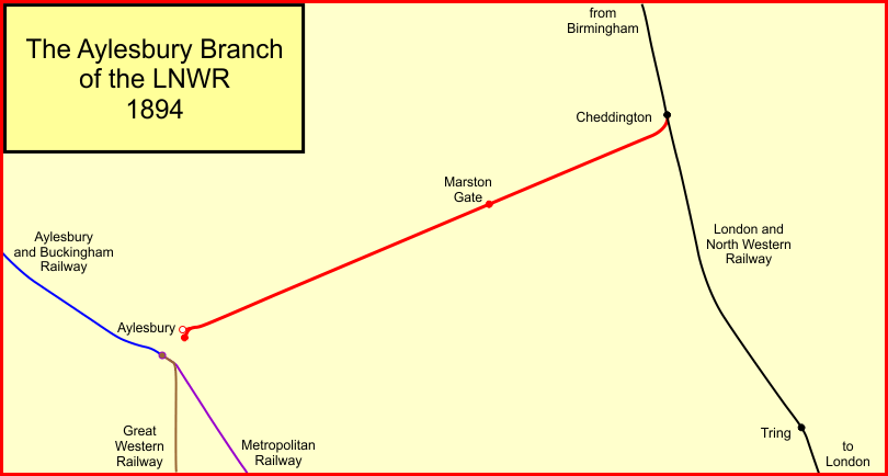 System map of the Aylesbury Railway in Buckinghamshire, England, in 1894. The railway joined the West Coast Main Line at Cheddington